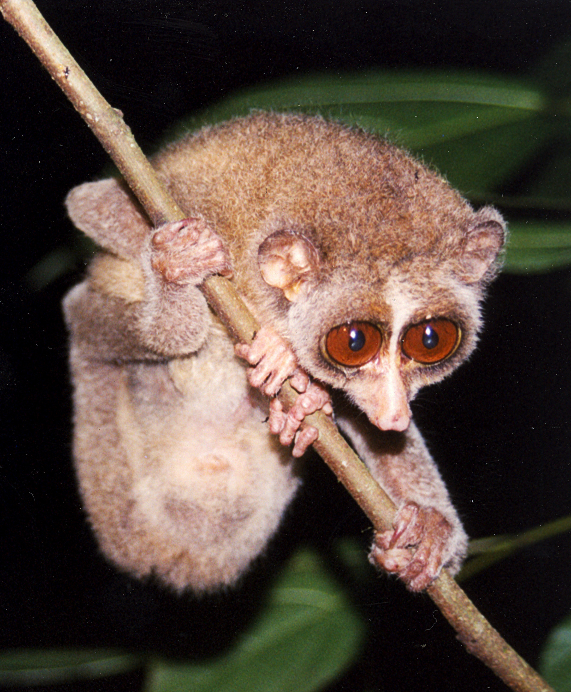 Red slender loris (Loris tardigradus tardigradus) from southwest Sri Lanka